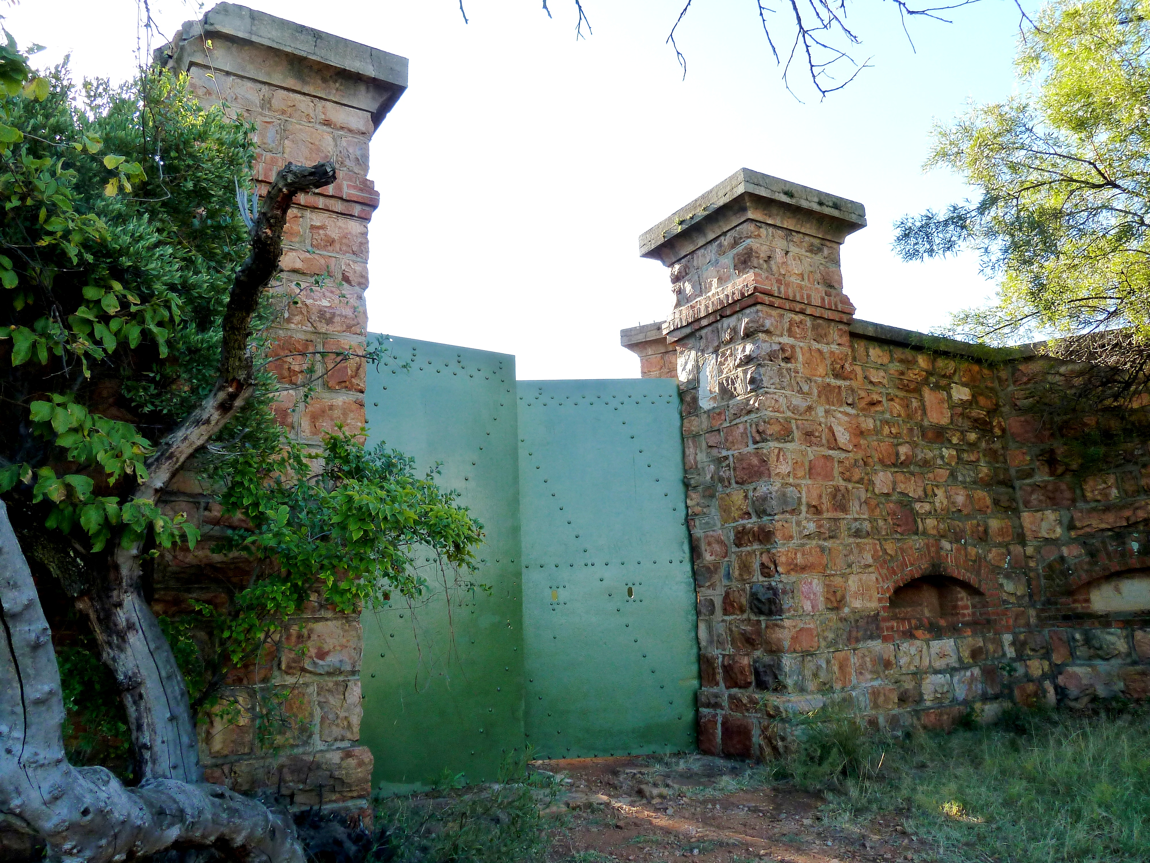 The stout, exterior armour-plated doors of the double entrance gateway of Fort Wonderboompoort in the current Wonderboom Nature Reserve, Pretoria